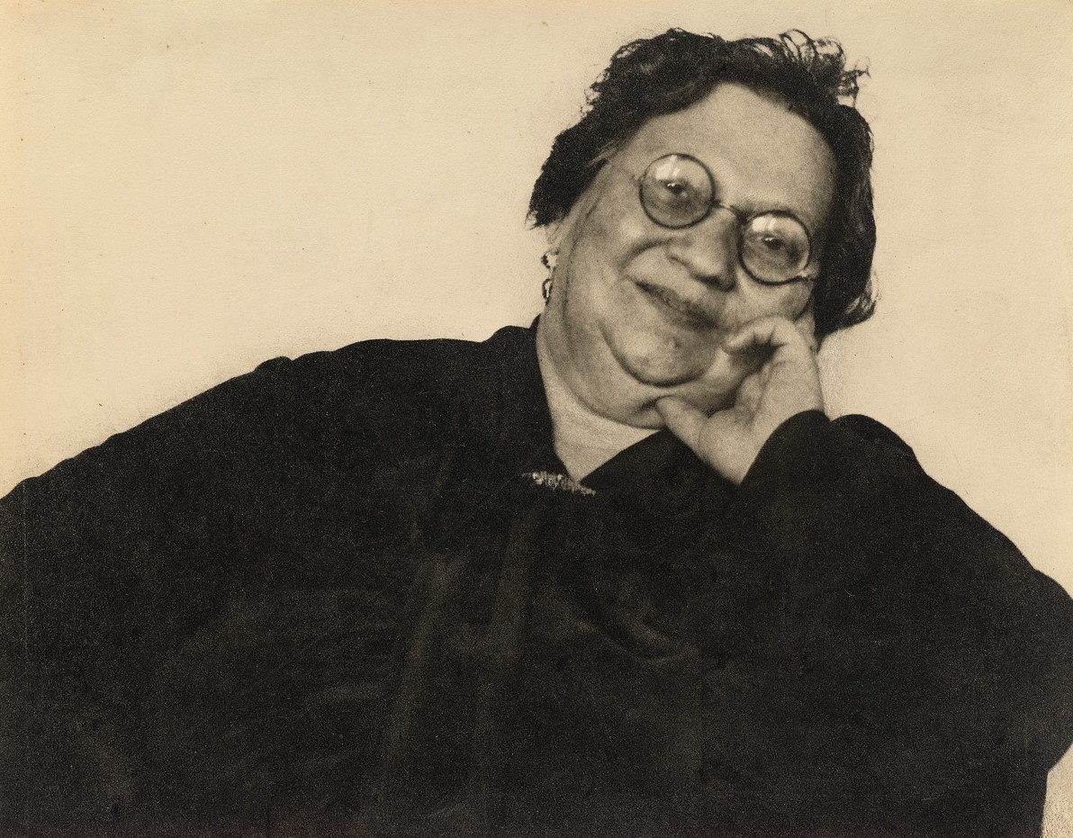 Portrait of Johanna Ey by Hugo Erfurth, Dresden